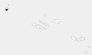 Map of the Azores highlighting Lajes das Flores